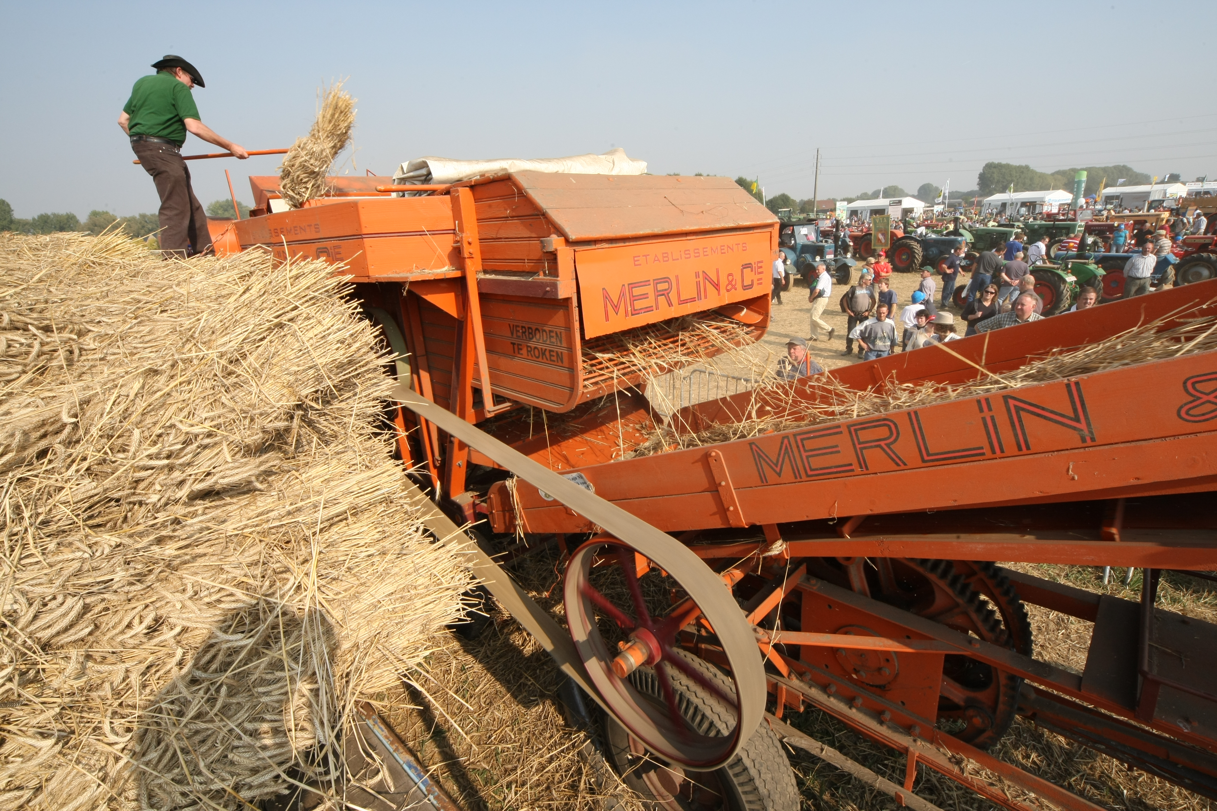 Établissements Merlin & Cie. threshing machine, Werktuigendagen 2009